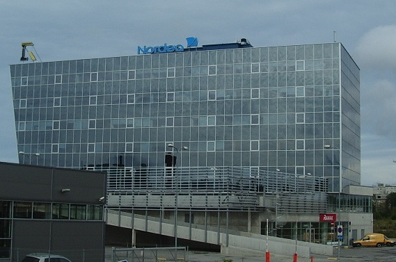 Nordea Bank, 2F Peterburi tee, Tallinn